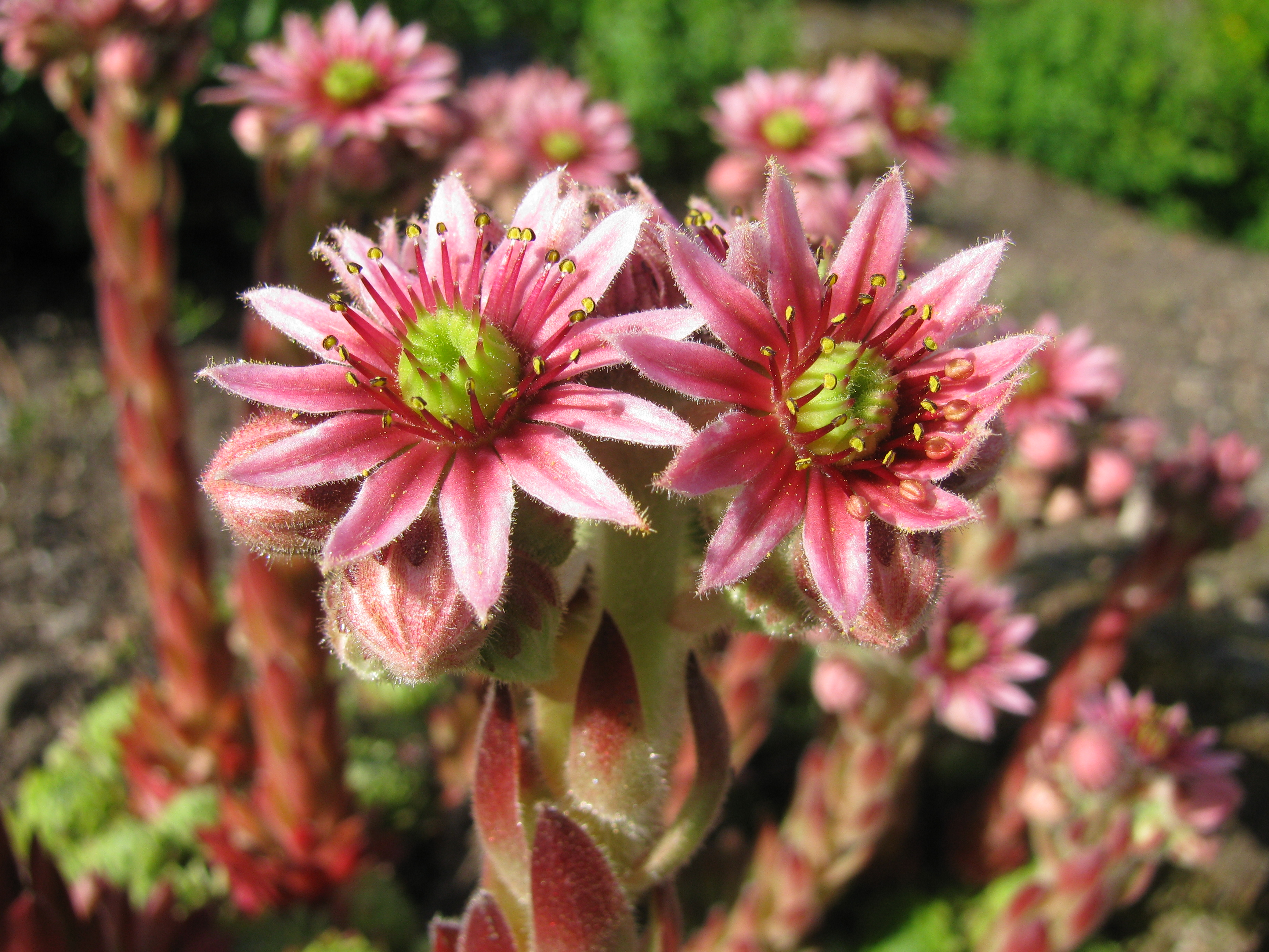 Sempervivum × funckii, a hybrid of S. arachnoideum × S. montanum × S. tectorum. Sometimes referred to simply as Sempervivum funckii.